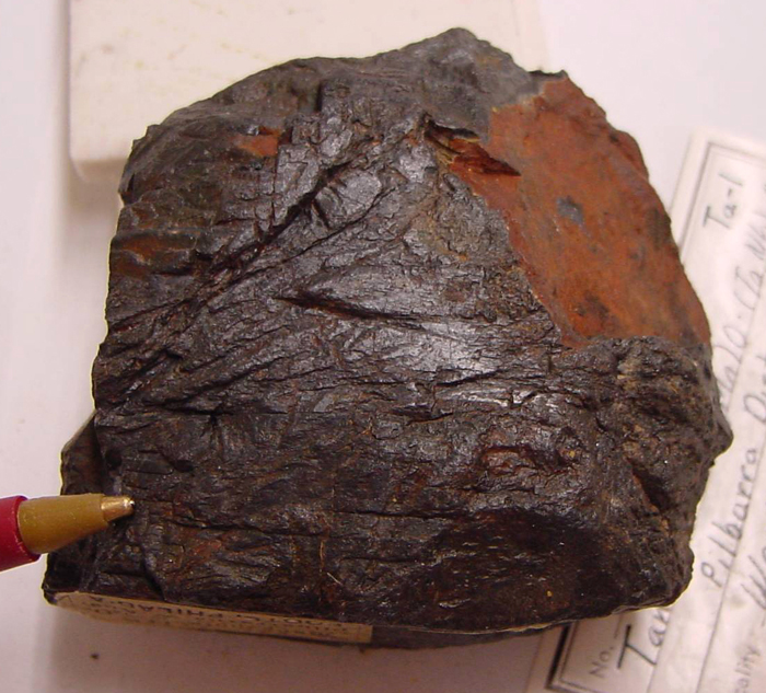 Tantalite, Pilbara district, Australia. Mineral collection of Brigham Young University, Department of Geology, Provo, Utah. . BYU index4-8037, (FeMn)O - (TaNb)_2O_5.